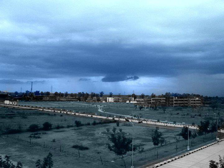 rayat campus